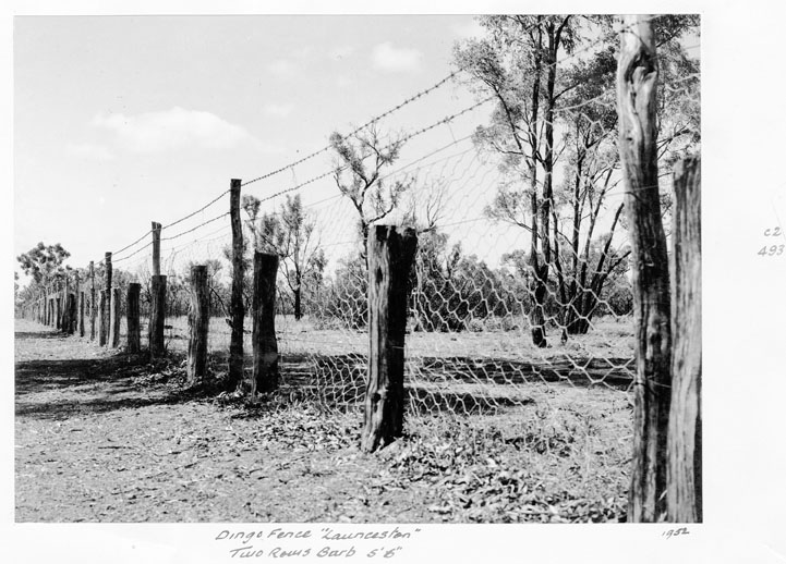 Dingo Fence "Launceston", two rows barb 5'6".